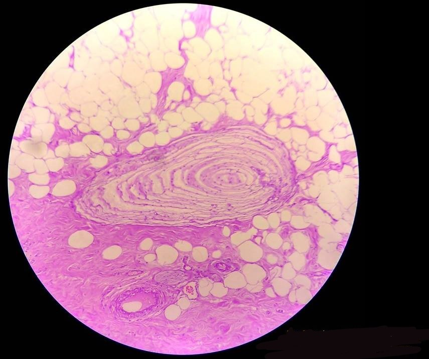 Image showing Pacinian corpuscle.